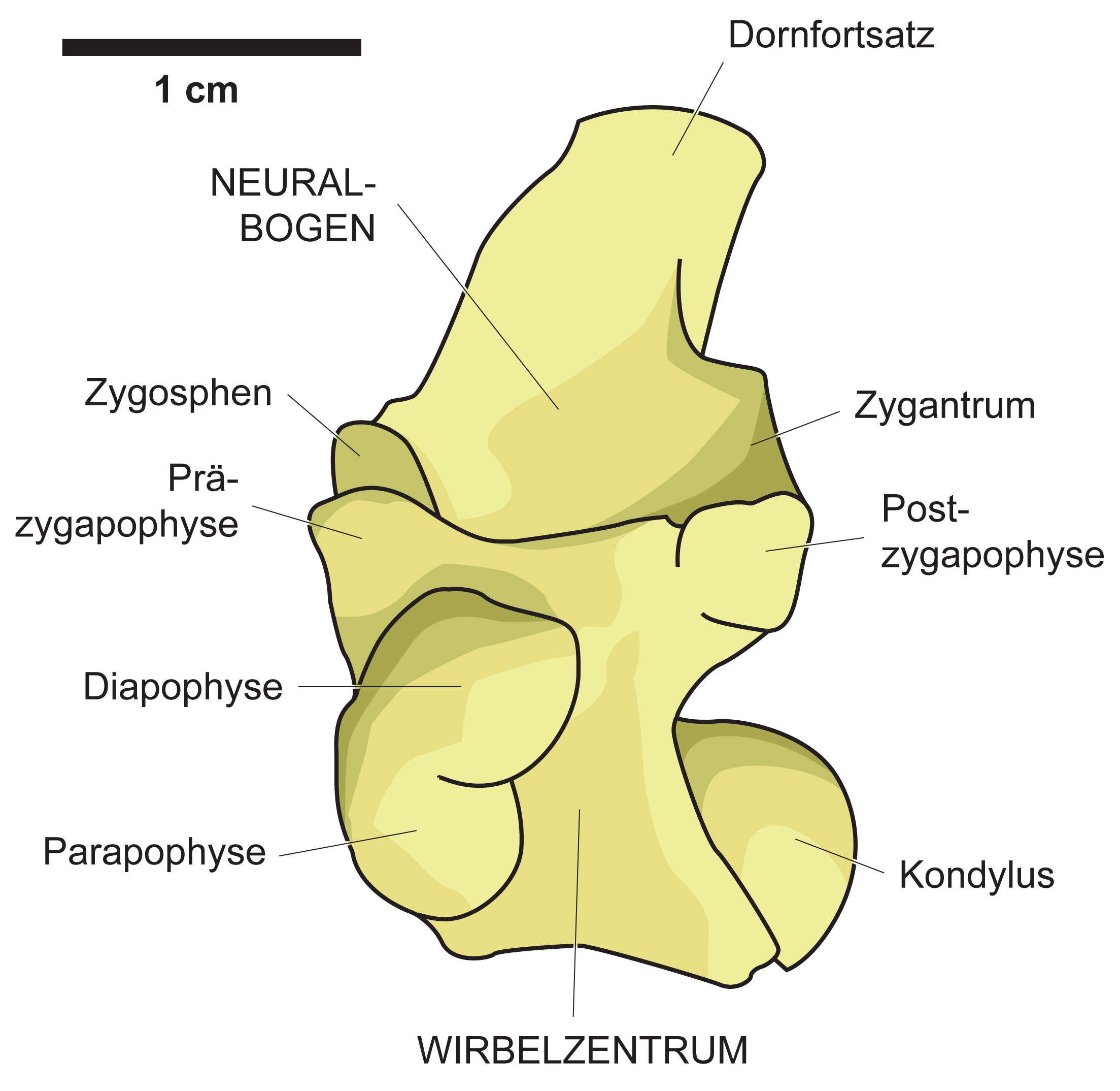 Schematic drawing of the holotype mid-trunk vertebra South Australian Museum (SAM) P16168 of Wonambi naracoortensis SMITH 1976 (Serpentes: Madtsoiidae) in left-lateral view, from Pleistocene cave deposits of the Naracoorte area, South Australia, after Smith (1976).[1] ↑ a b Meredith J. Smith (1976): Small fossil vertebrates from Victoria Cave, Naracoorte, South Australia. IV. Reptiles. Transactions of the Royal Society of South Australia, 100(1):39–51 (BHL), fig. 2C therein.